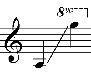 Written Range of Heckelphone